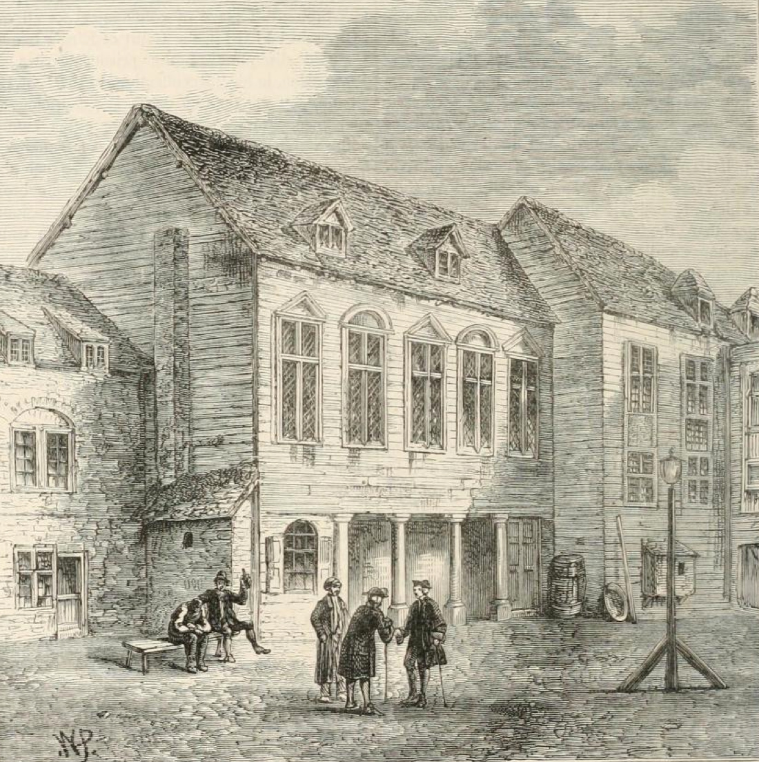 Engraving of Marshalsea prison, Southwark, London, 18th century